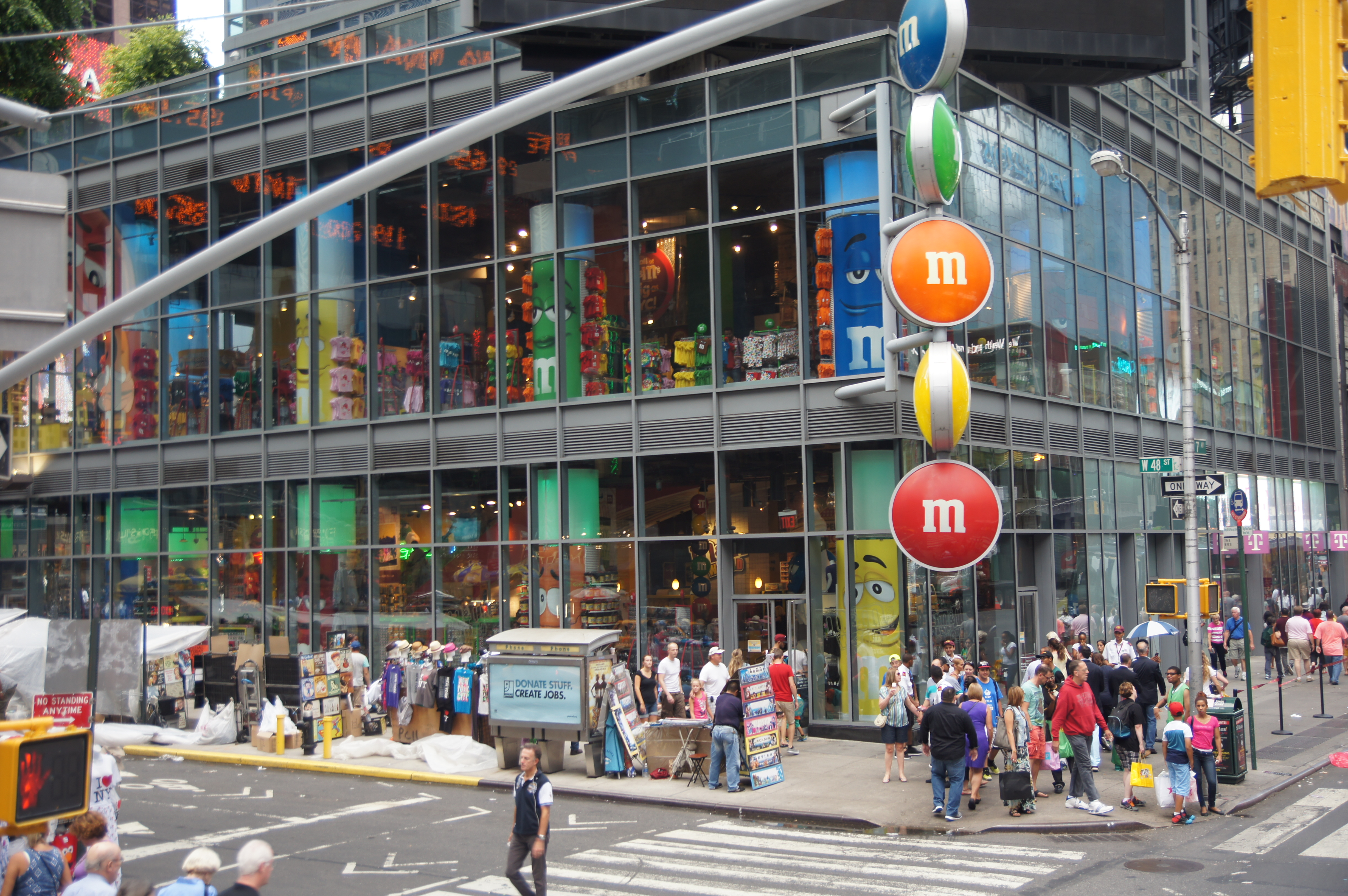 New York